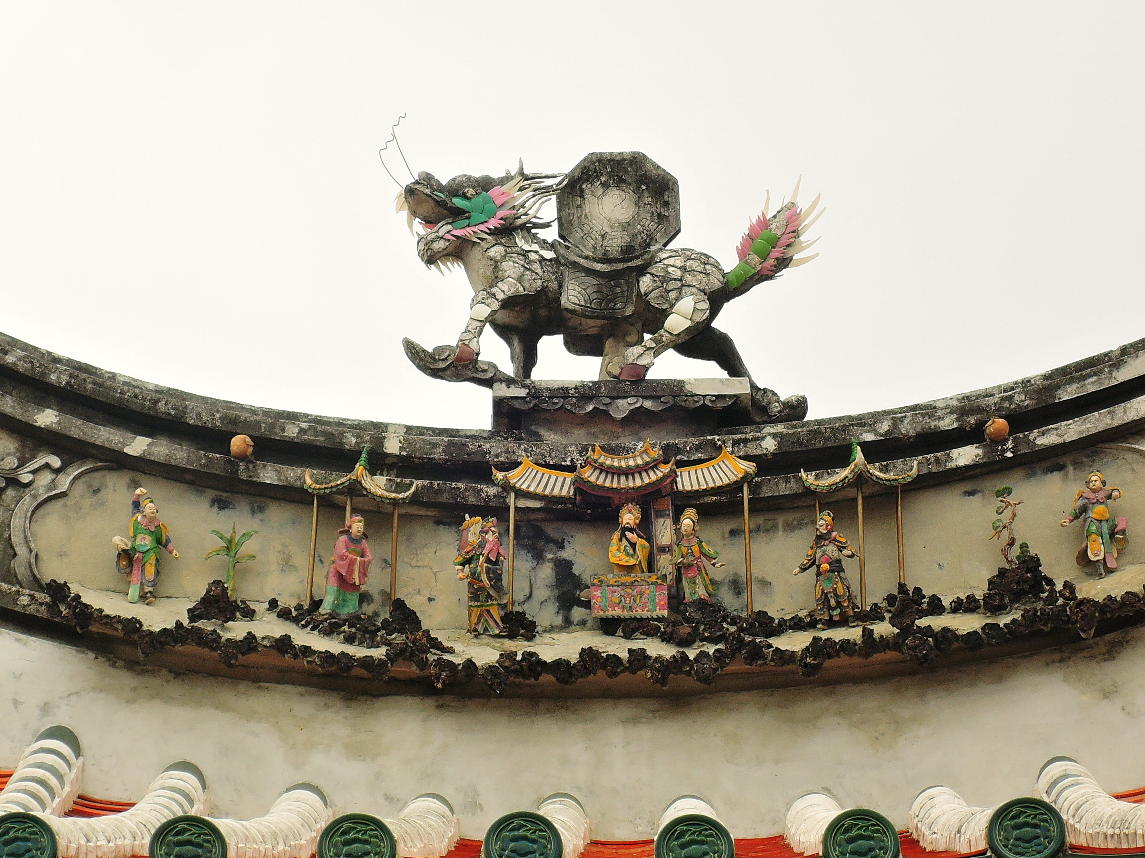 Top of the roof: Dragon-Horse carries the map. Middle of the roof: General Yang is gonna kill his son.